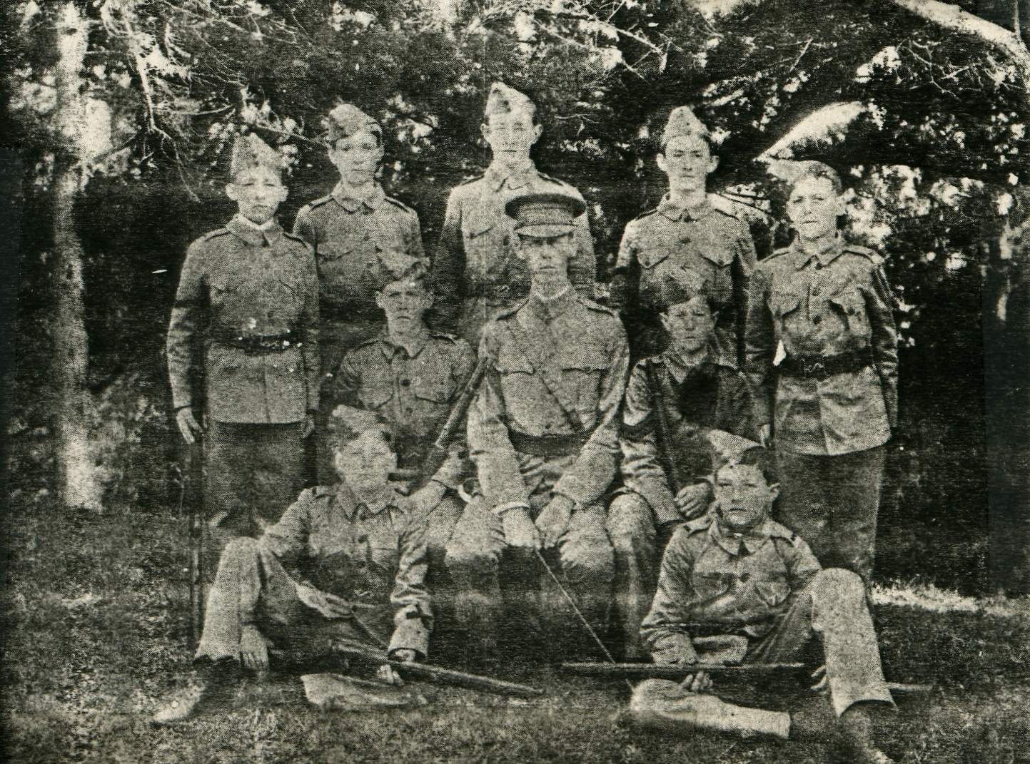 An instructor and cadets of the Cadet Corps of the Saltus Grammar School in the British Overseas Territory of Bermuda, circa 1901. This would be expanded to other schools in 1907 as the Bermuda Cadet Corps. Among the cadets shown is Charles Gray Gosling Gilbert, who later served in the Royal West Kent Regiment and the Machine Gun Corps during the First World War, earning the Military Cross in France. After the war he became the long-time director of the Department of Education of the Government of Bermuda. One of his sons was Major-General Glyn Gilbert, one of the two highest-ranking Bermudians ever to serve in the British Army.